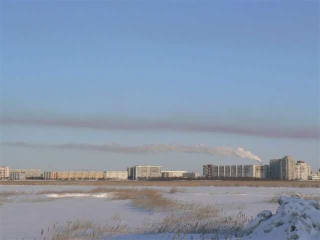 Foto of Severodvinsk city